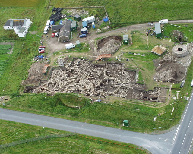 Old Scatness Dig, near to Scatness, Shetland Islands, Great Britain. A few years into the dig, broch and roundhouses plain to see